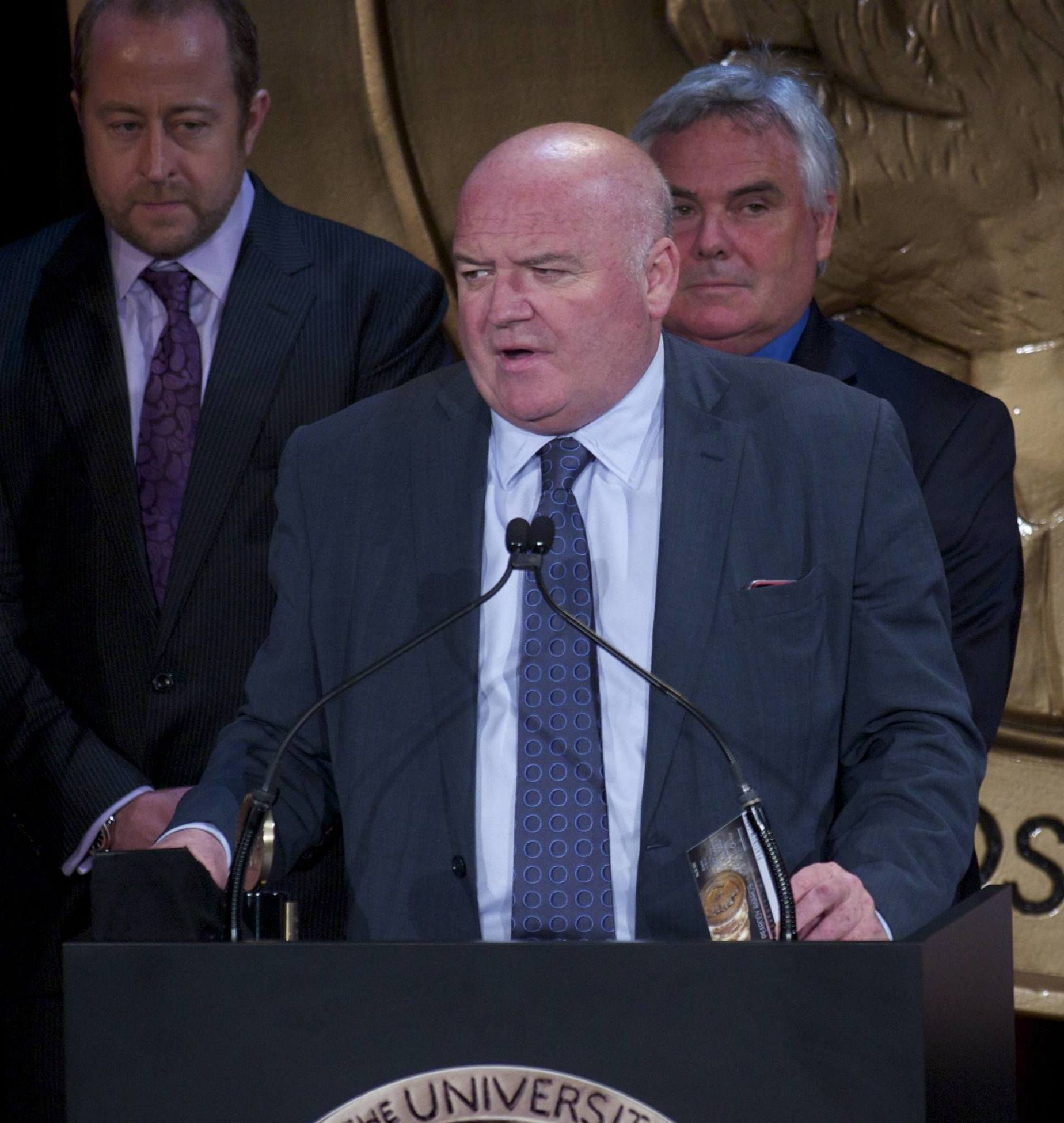 PHOTO CREDIT: ANDERS KRUSBERG / PEABODY AWARDS Tony Maddox accepts the Peabody Award for CNN's Coverage Inside Syria and Homs on stage with the CNN team. L to R: Nima Elbagir, ?, Tony Maddox, ?, and Deborah Rayner, 72nd Annual Peabody Awards Luncheon, Waldorf-Astoria Hotel, May 20, 2013